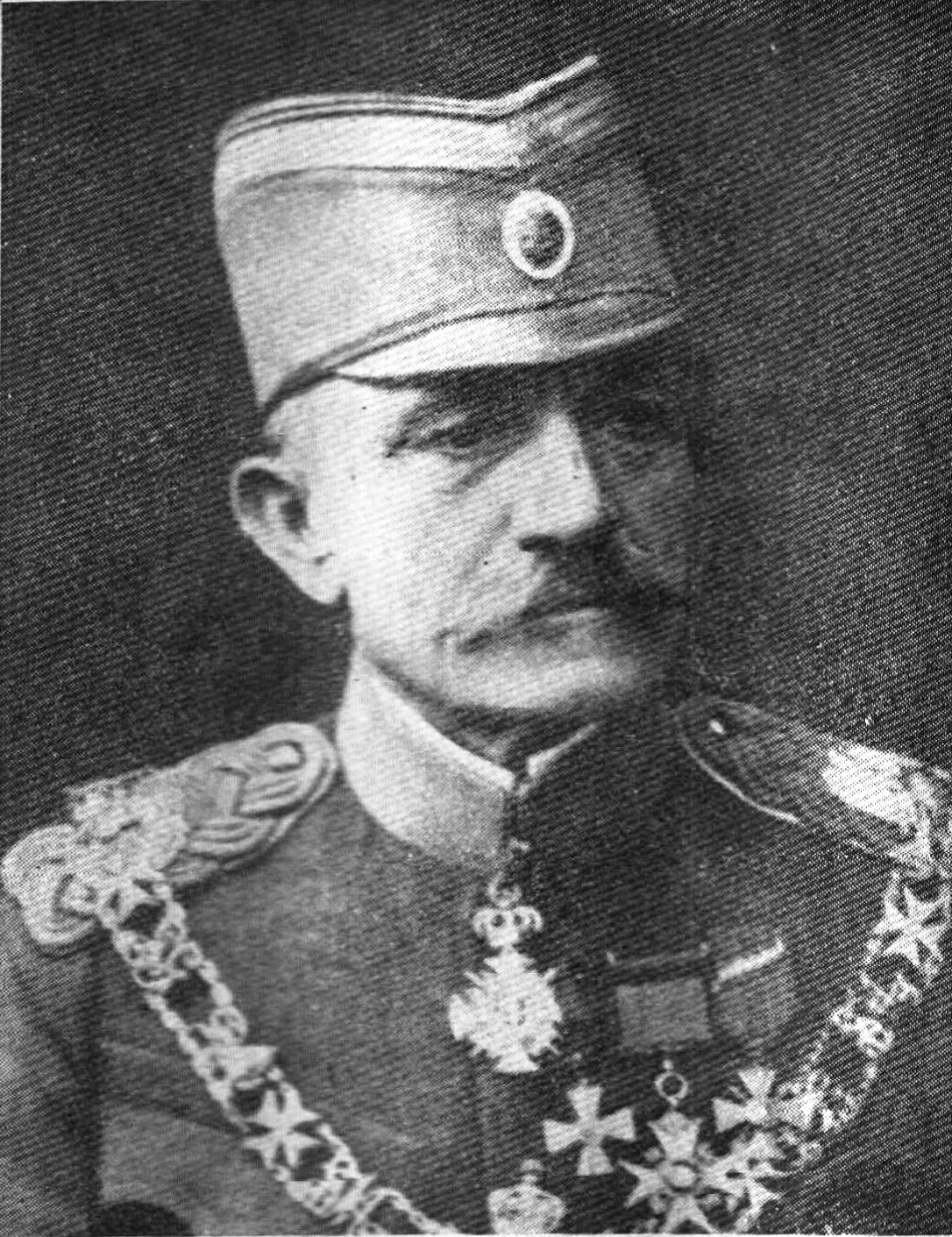 Voyvoda Vuk Popovich. 1927 calendar.